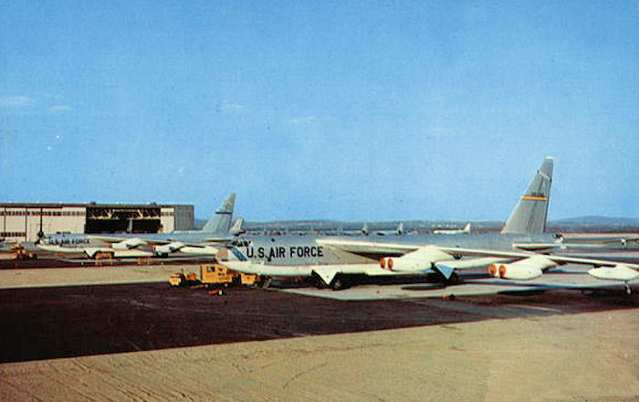 USAF Postcard of Westover AFB, MA, 1960 showing B-52s of the 99th Bombardment Wing